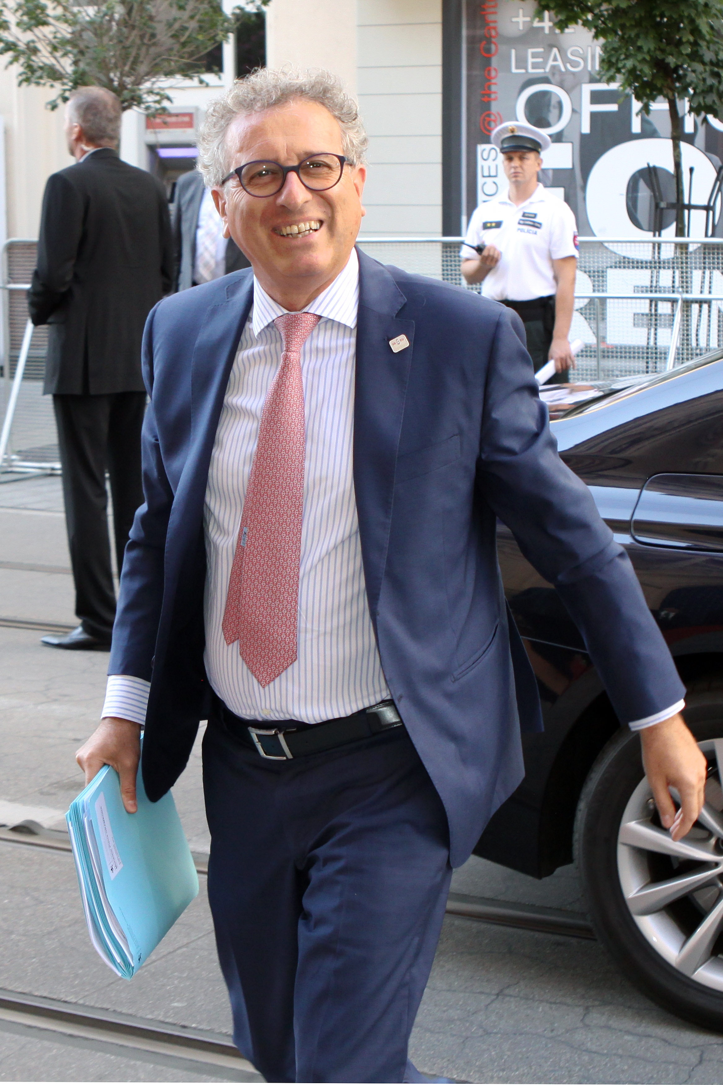 Luxembourg, Mr. Pierre Gramegna, Minister of Finance Informal Meeting of Ministers for Economic and Financial Affairs (Informal ECOFIN) Photo: Andrej Klizan